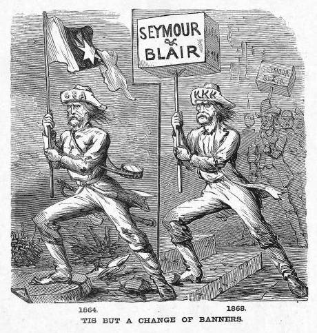 1868 Republican cartoon (USA) attacking Democratic Party Confederate sympathizers. 1868 Republican cartoon identifies Democratic candidate Horatio Seymour (right panel) with KKK violence and with Confederate soldiers